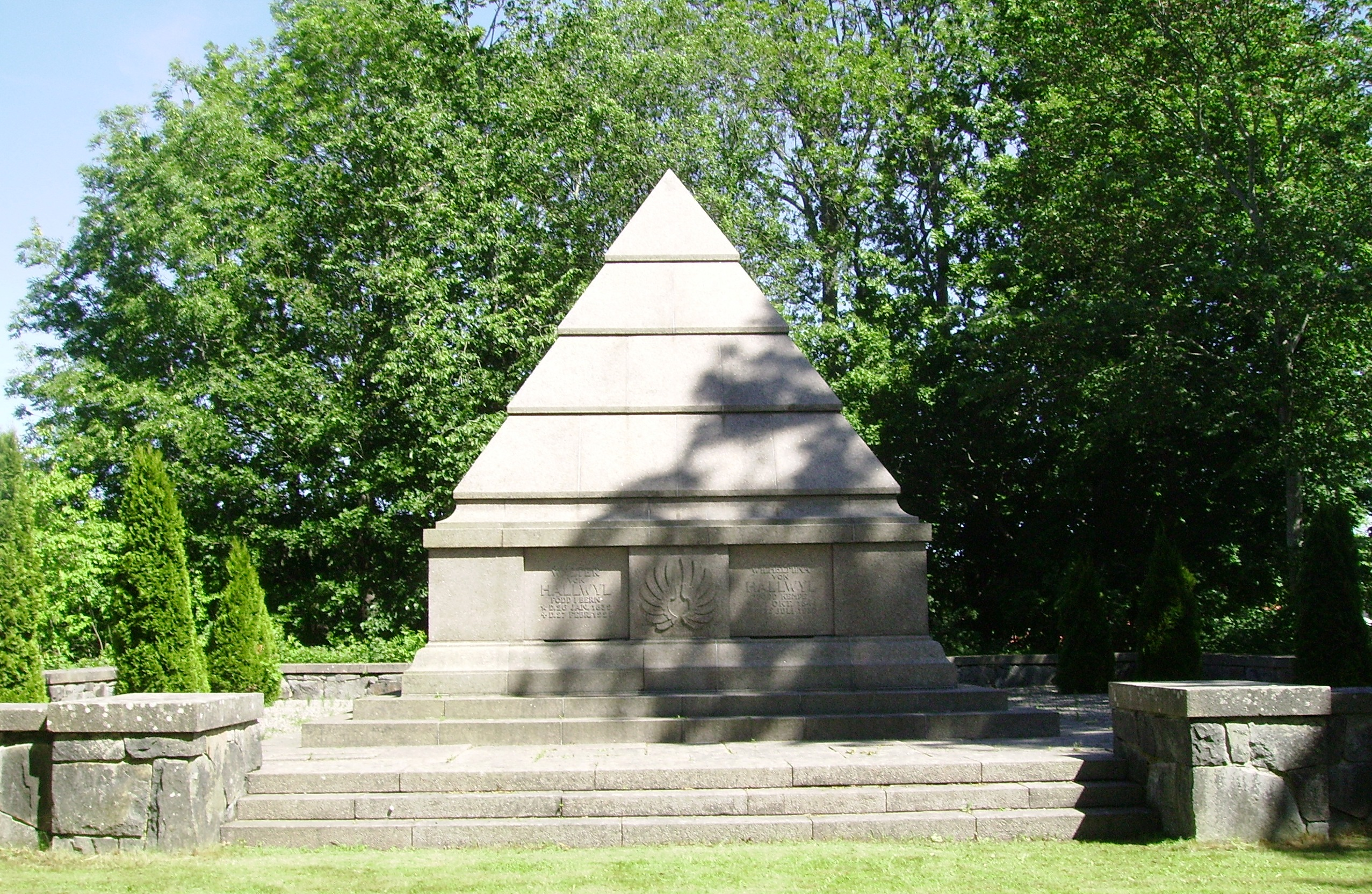 Picture of Walther and Wilhelmina von Hallwyl's grave at Västerljung cemetary.